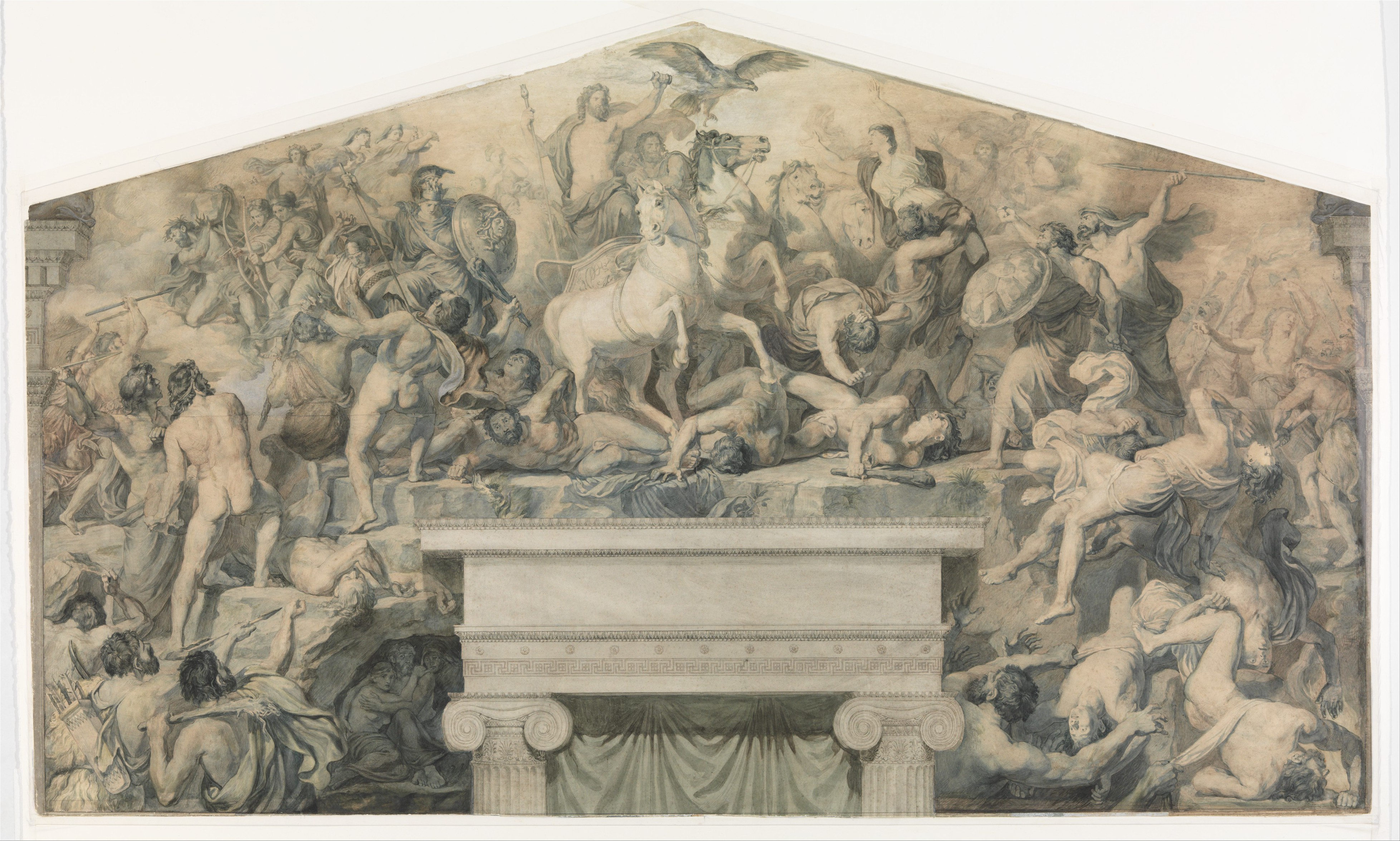 Drawing Ornament & Architecture; Drawings